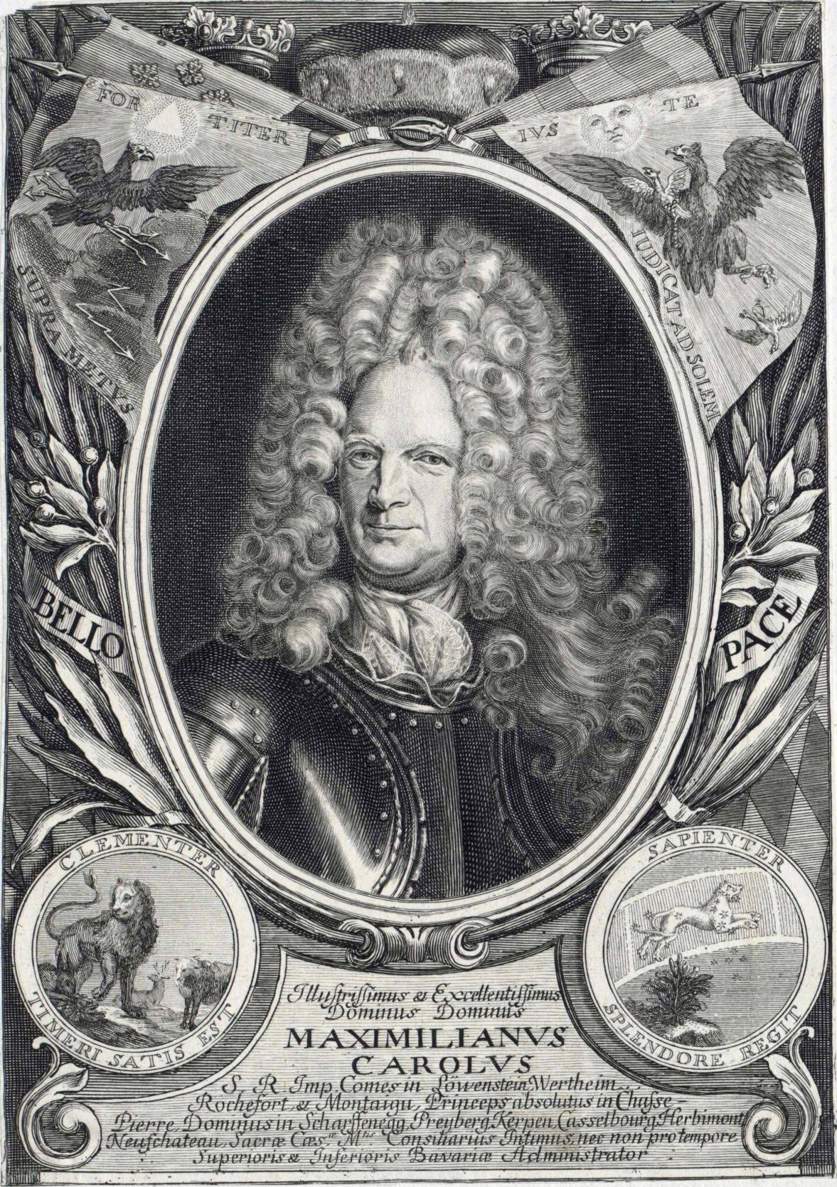 Portrait of Maximilian Karl Albert, Prince of Löwenstein-Wertheim-Rochefort (1656-1718)